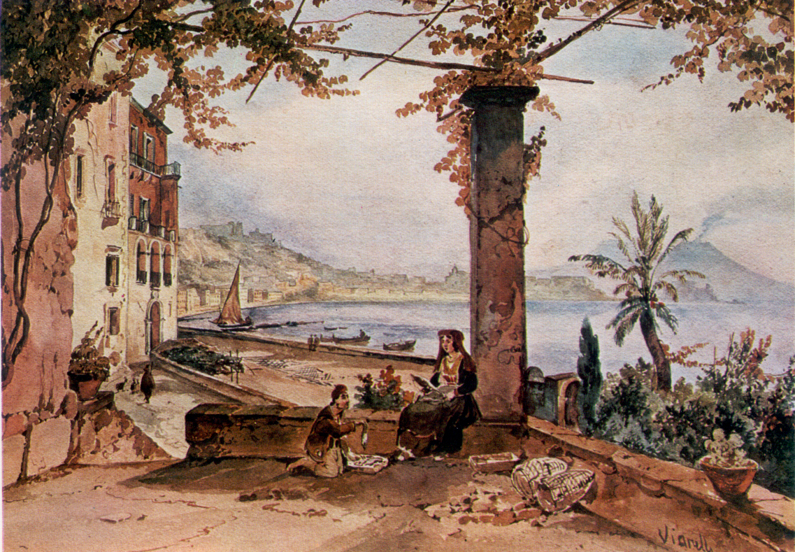 Achille Vianelli - Posillipo.